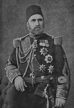 Marshal Ahmed Fevzi Pasha, co-founder of the Ottoman military academy (18th century)